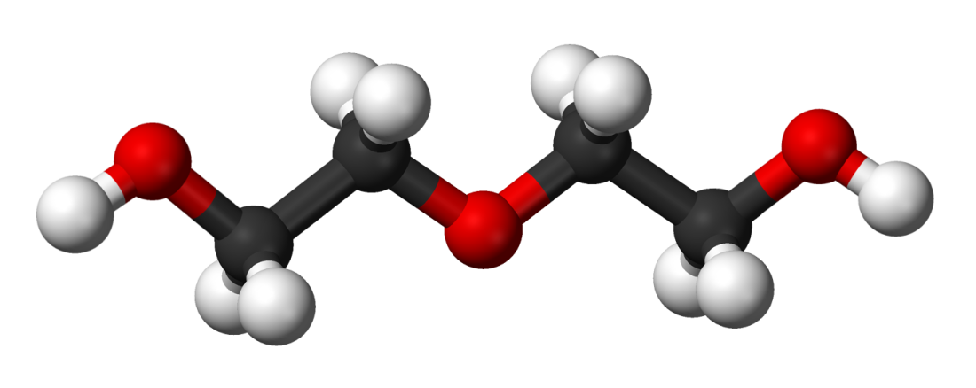 Diethylene glycol molecule model